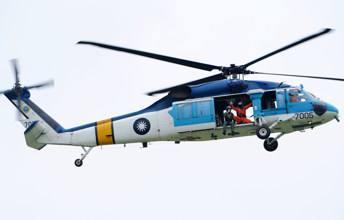 Republic of China Air Force Sikorsky S-70C-1A Bluehawk